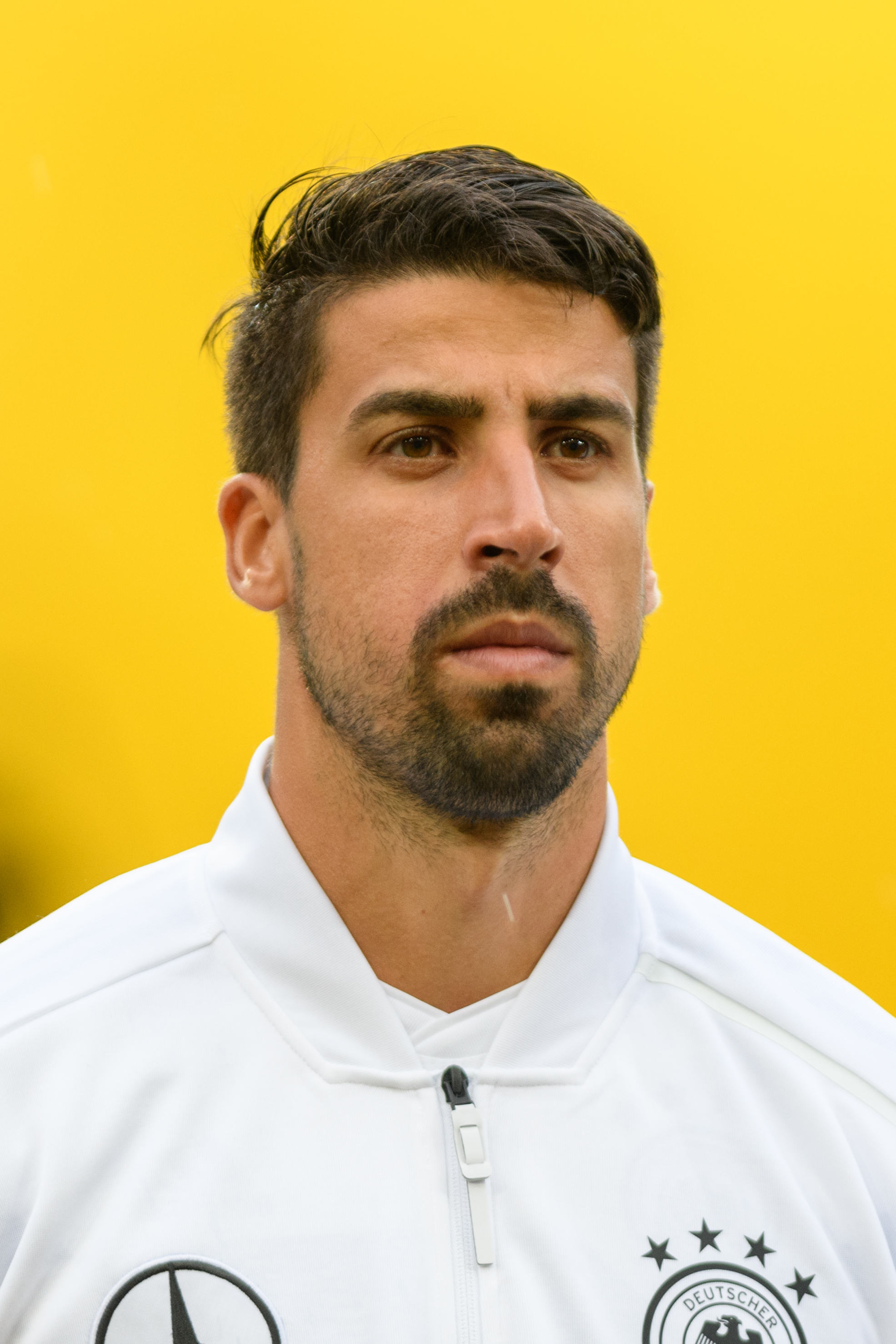 FIFA Friendly Match Austria vs. Germay 2018/06/02 in Klagenfurt/Woerthersee. Picture shows Sami Khedira (GER).